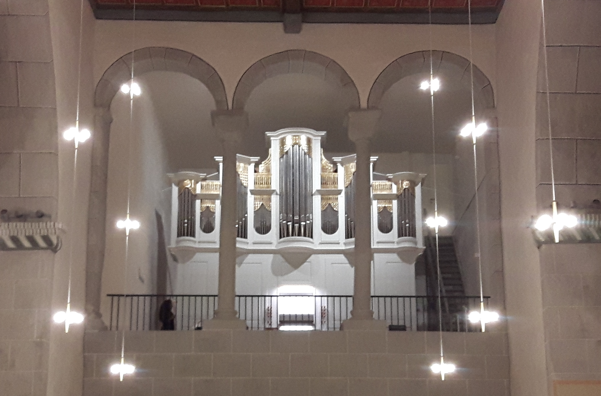 The recently restored Wilhelm-Orgel in Kaufungen, Germany, on the day of its re-inauguration, 20 October 2019.